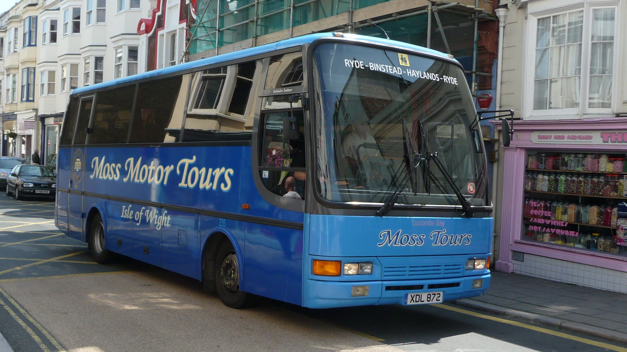 Southern Vectis 235 Luccombe Bay (XDL 872), a MAN 11.190/Caetano Algarve, on Cross Street, Ryde, Isle of Wight, on the Haylands and Binstead Shuttle service, which was this vehicle's regular run, also carrying branding for the service. The coach has now left Southern Vectis, and moved to Damory Coaches in September 2009.